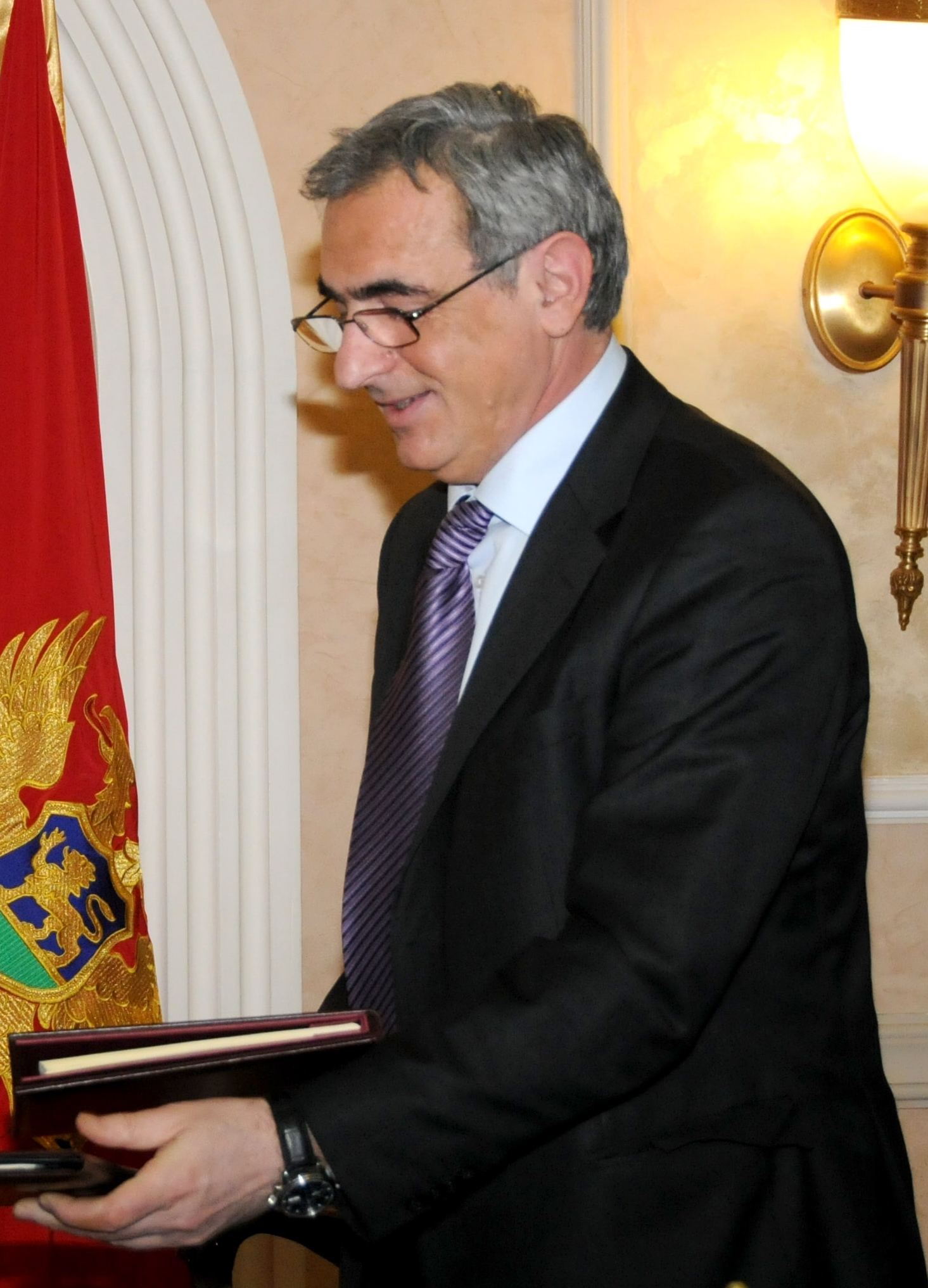 U.S. Ambassador to Montenegro Sue K. Brown (not in picture) and Montenegro’s Minister of Transportation and Maritime Affairs Andrija Lompar sign the U.S.-Montenegro Open Skies Agreement in Podgorica, Montenegro, on March 2, 2012. [State Department photo/ Public Domain]